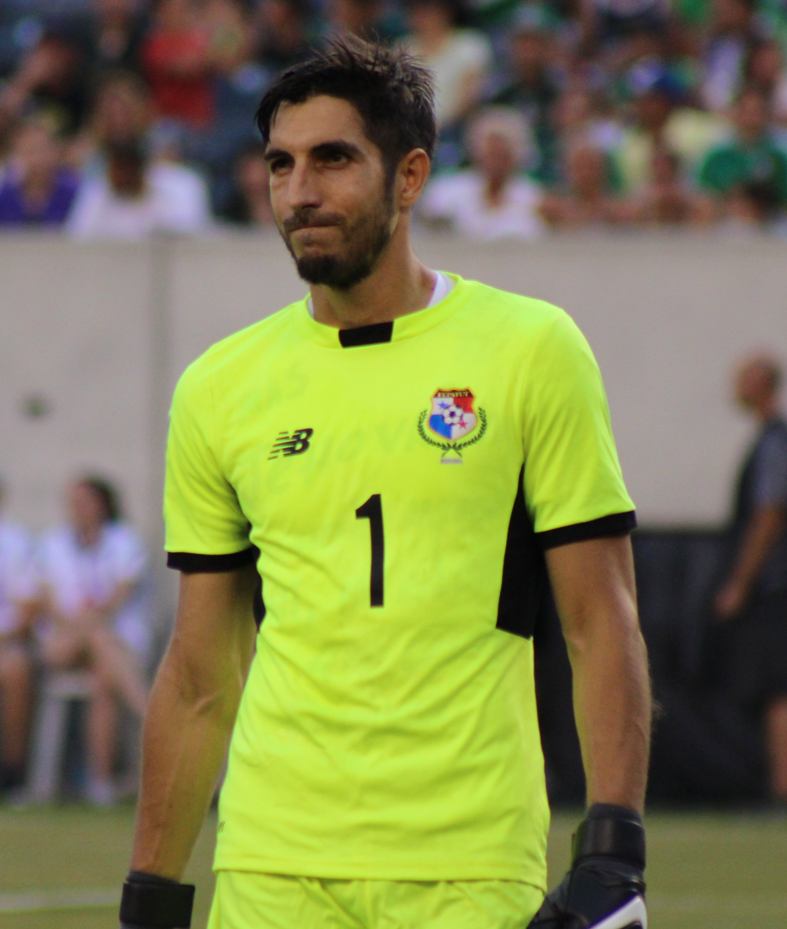 Jaime Penedo